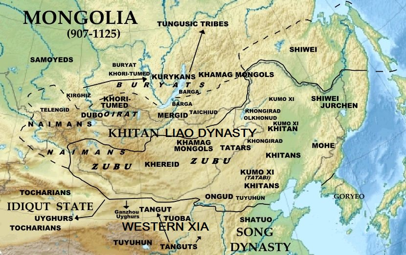 based on File:Asia laea relief location map.jpg. Data source: partially based on "Mongolian National Atlas" (2009)